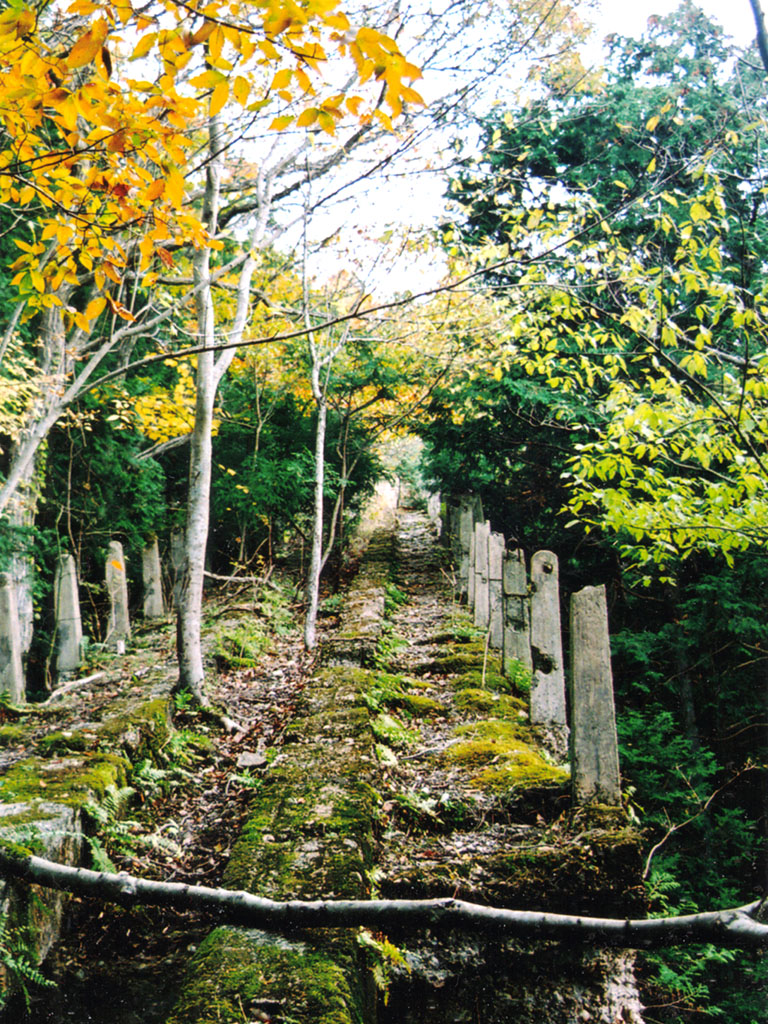 Atagoyama Railway ruins, Kyoto, Japan.